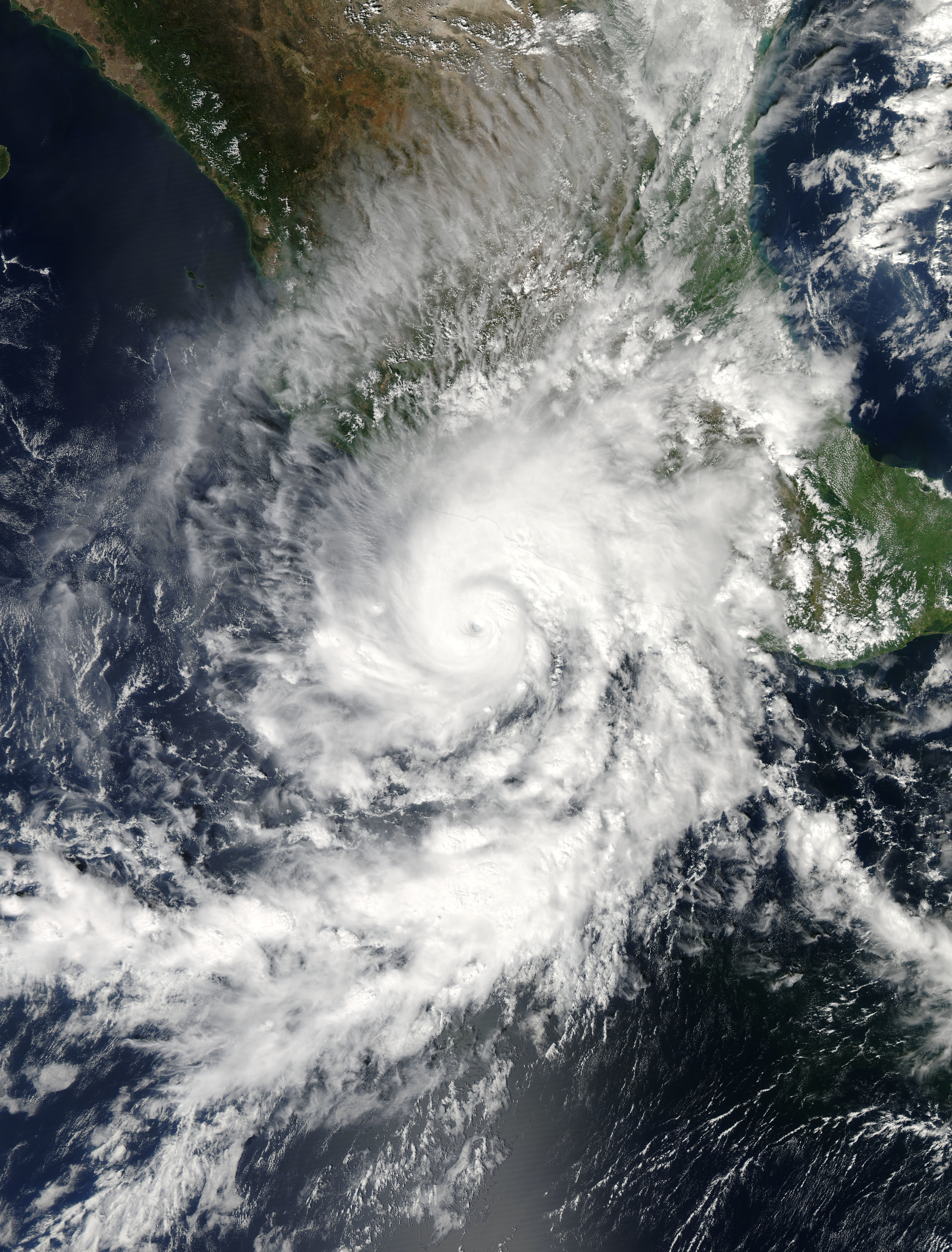 Hurricane Raymond was at its strongest when the Moderate Resolution Imaging Spectroradiometer (MODIS) on NASA’s Aqua satellite acquired this image at 3:10 p.m. on October 21, 2013. The Category 3 storm had sustained winds near 195 kilometers (120 miles) per hour as it spun off Mexico’s western shore. Though Raymond was not forecast to come ashore, it poses a threat to flood-weary Acapulco and nearby communities. The storm’s outer bands are circulating over coastal regions, unleashing heavy rain. Since Raymond is stalled offshore, the rain has persisted since Saturday. From Saturday to Monday, Acapulco received 5.67 inches of rain, reported Jeff Masters. The same region flooded in September when Tropical Storm Manuel came ashore. Raymond is expected to move west away from Mexico on Wednesday, October 23.